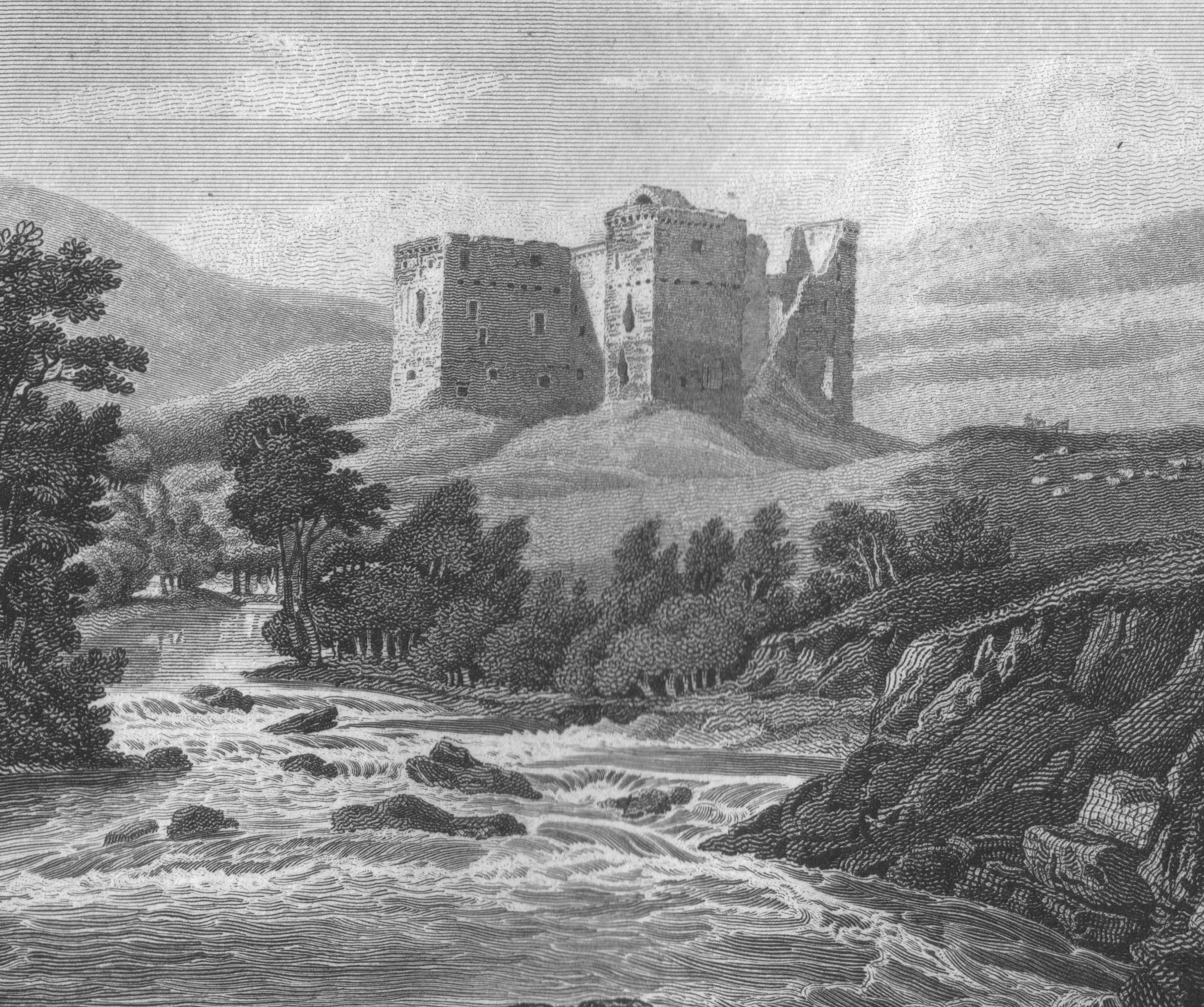 Hermitage Castle in 1814, Liddesdale, Scottish Borders.